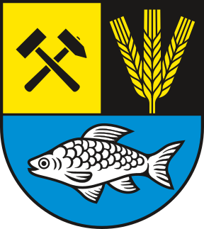 Coat of arms of Seegebiet Mansfelder Land